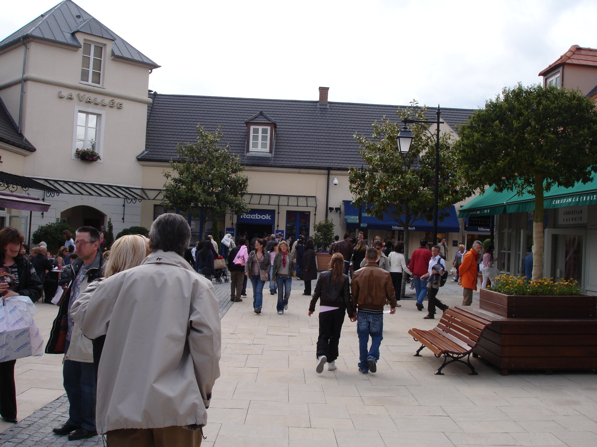 France, Seine-et-Marne, La Vallée, Outlet Shopping Village